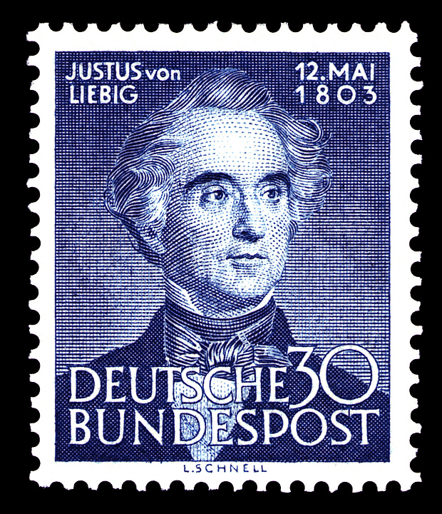 150th birthday of Justus von Liebig (1803-1873) Graphics by Schnell Ausgabepreis: 30 Pfennig First Day of Issue / Erstausgabetag: 12. Mai 1953 Michel-Katalog-Nr: 166